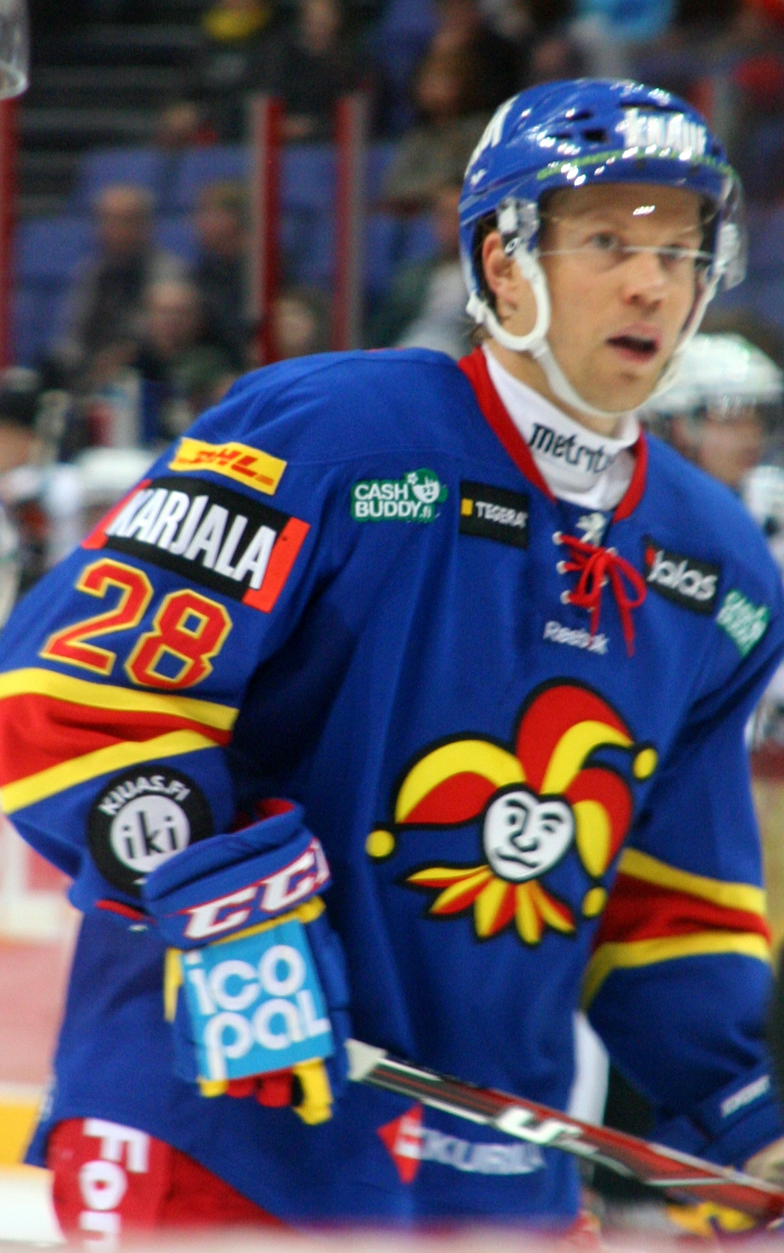 Ice Hockey Team Helsingin Jokerit's Attacker #28 Jani Rita